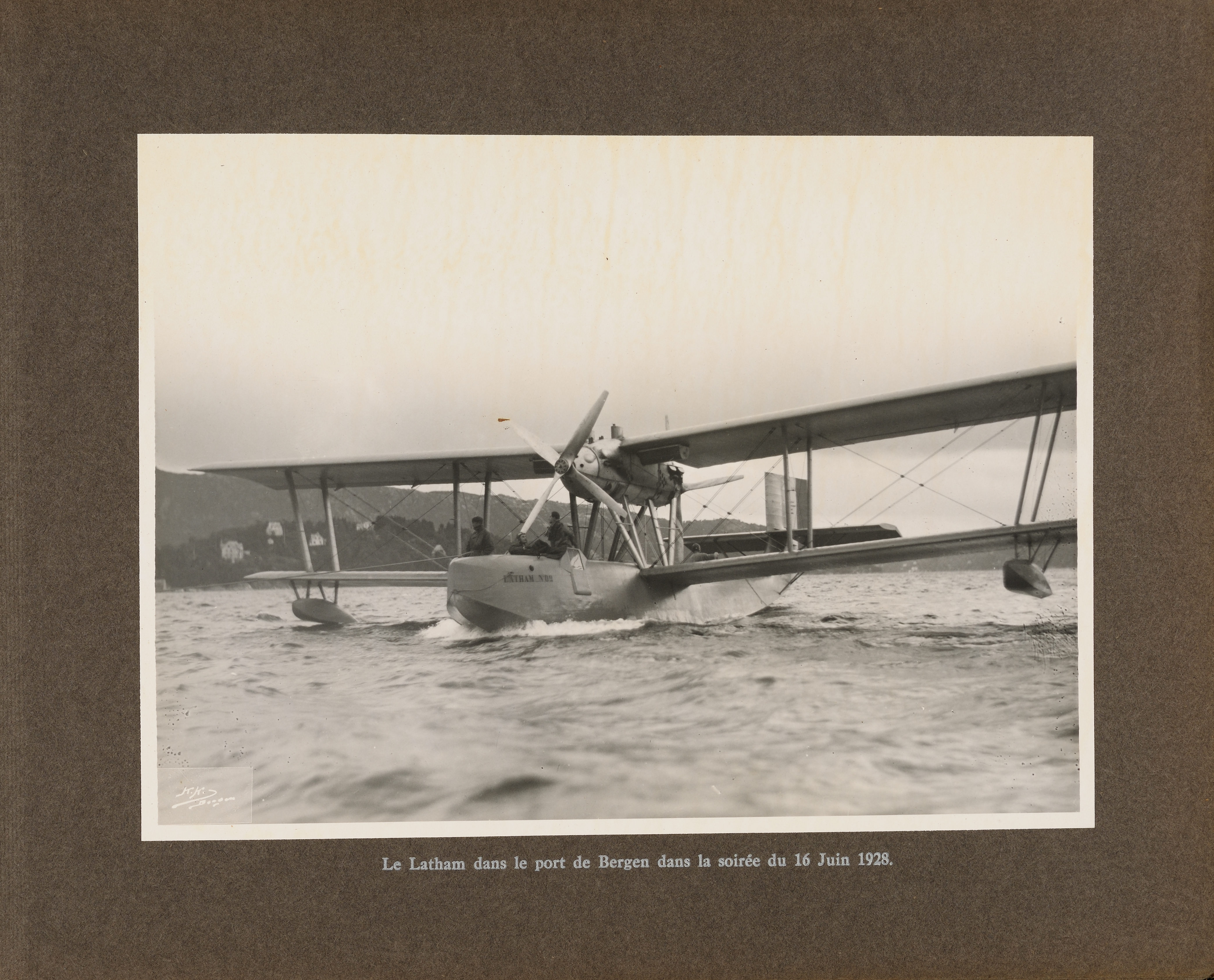 Album page with one photography. "Stella Polaris" at the Glacier «Svartisen». From the album «Croisière de «Stella Polaris» au Cap Nord 6.-19. juni1929. NMFF.003695-1